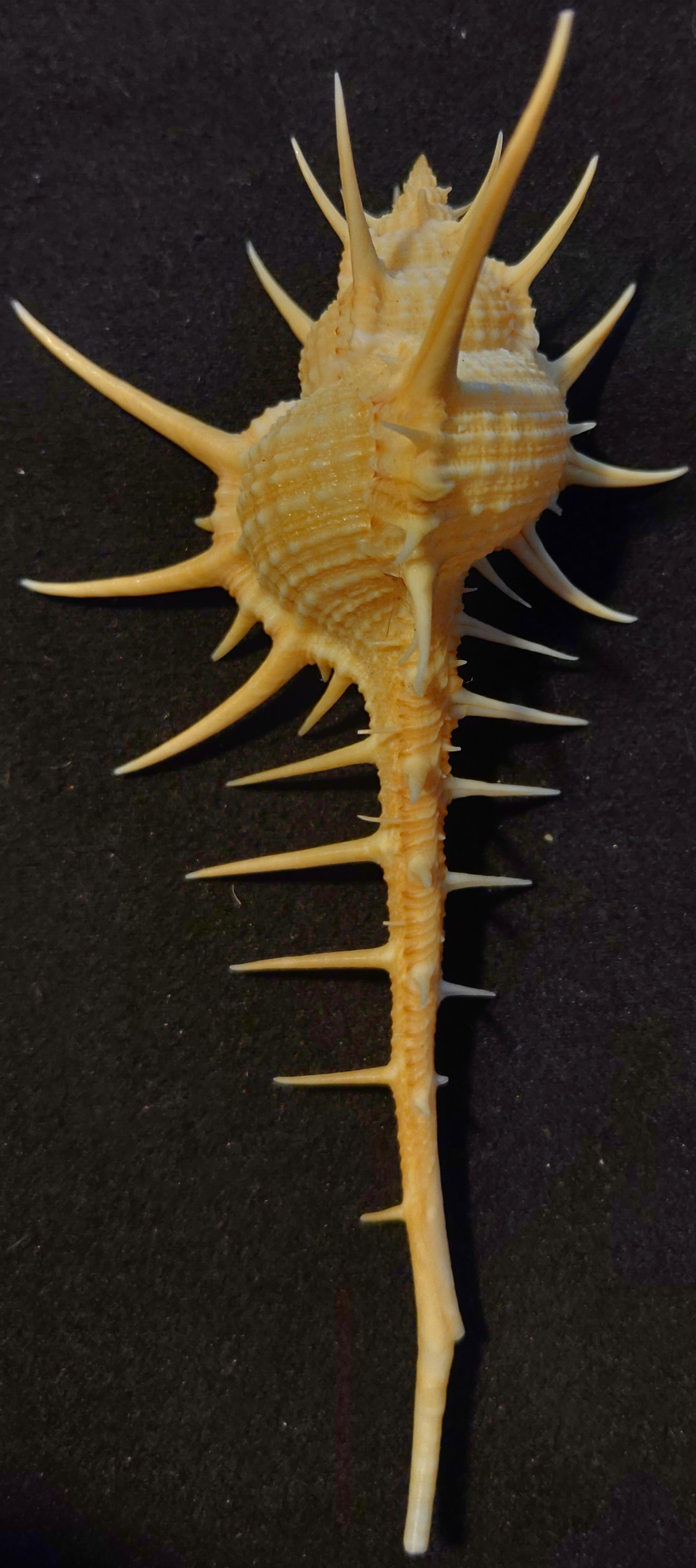 Murex Tenuirostrum Back